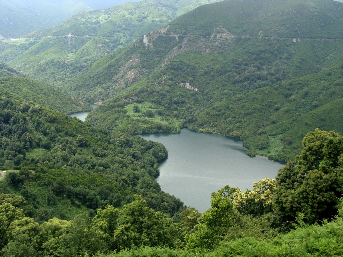 Notice from the autor: this photo is not appropriate for illustrate Ortale, which is out of its scope.